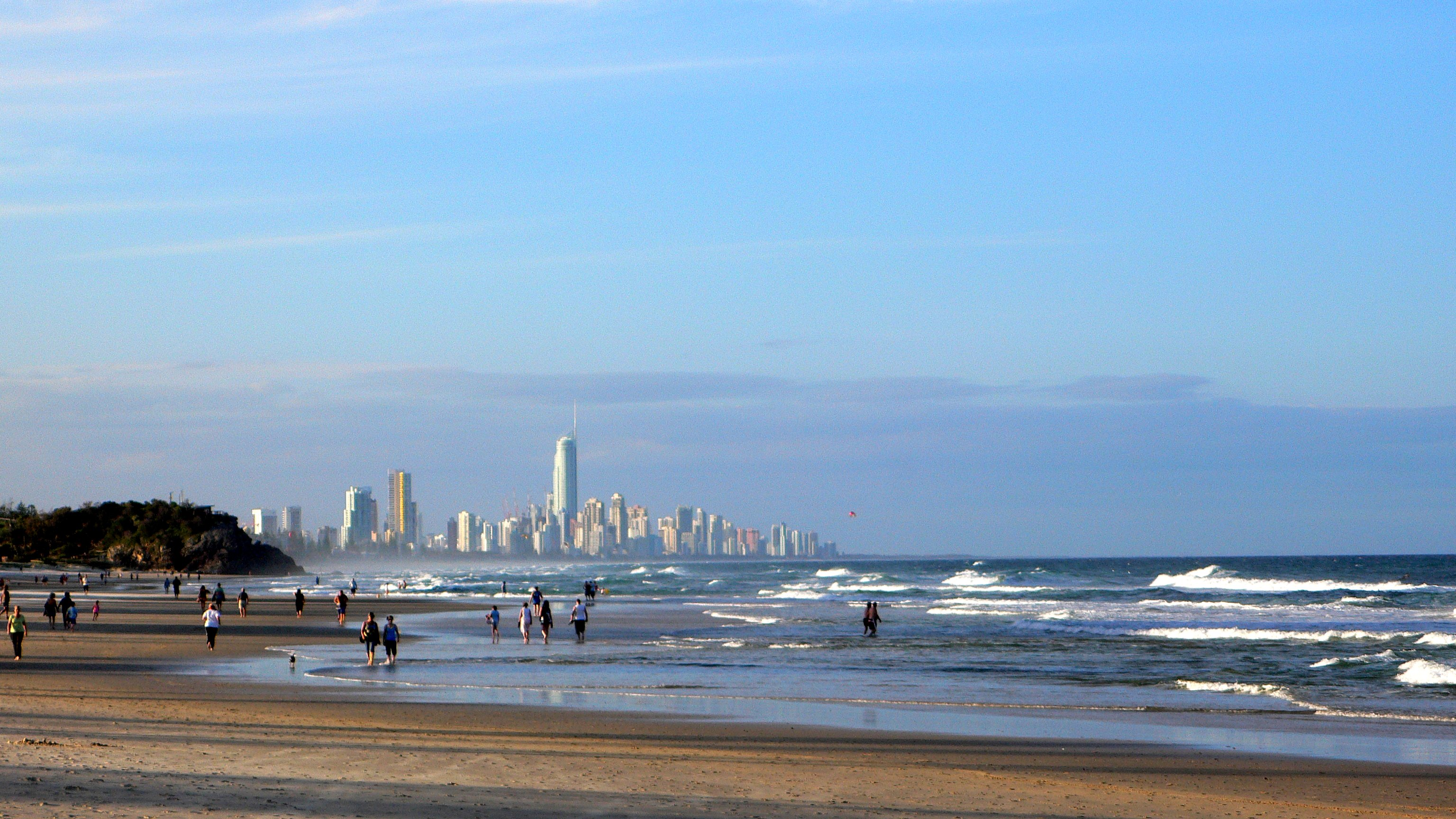 Burleigh Heads Beach with the Gold Coast skyline in the distance, 2003